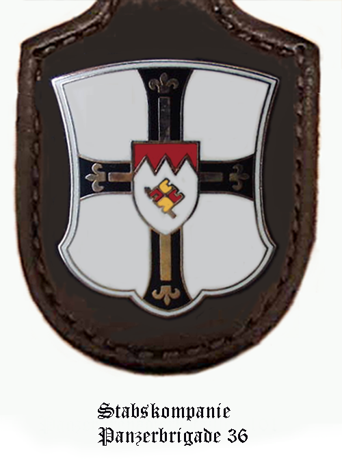 Internal coat of arms Stabskompanie Panzerbrigade 36 (StKp PzBrig 36) of the Bundeswehr (Armed Forces of the Federal Republic of Germany). → Remarks on naming and categorization scheme